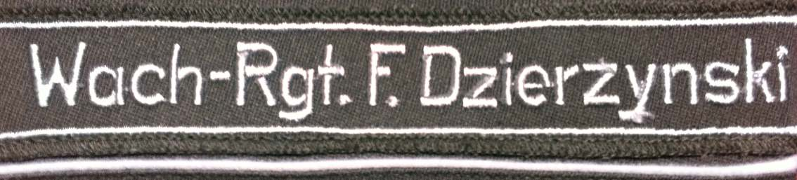 Cuff title of Felix Dzerzhinsky Guards Regiment